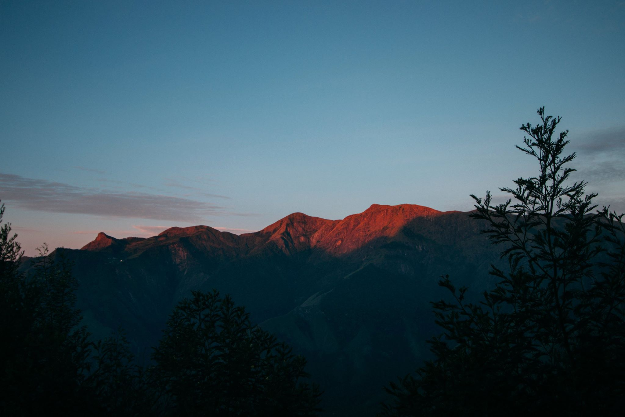 Rays of the sun warm the mountains on a cold December morning.